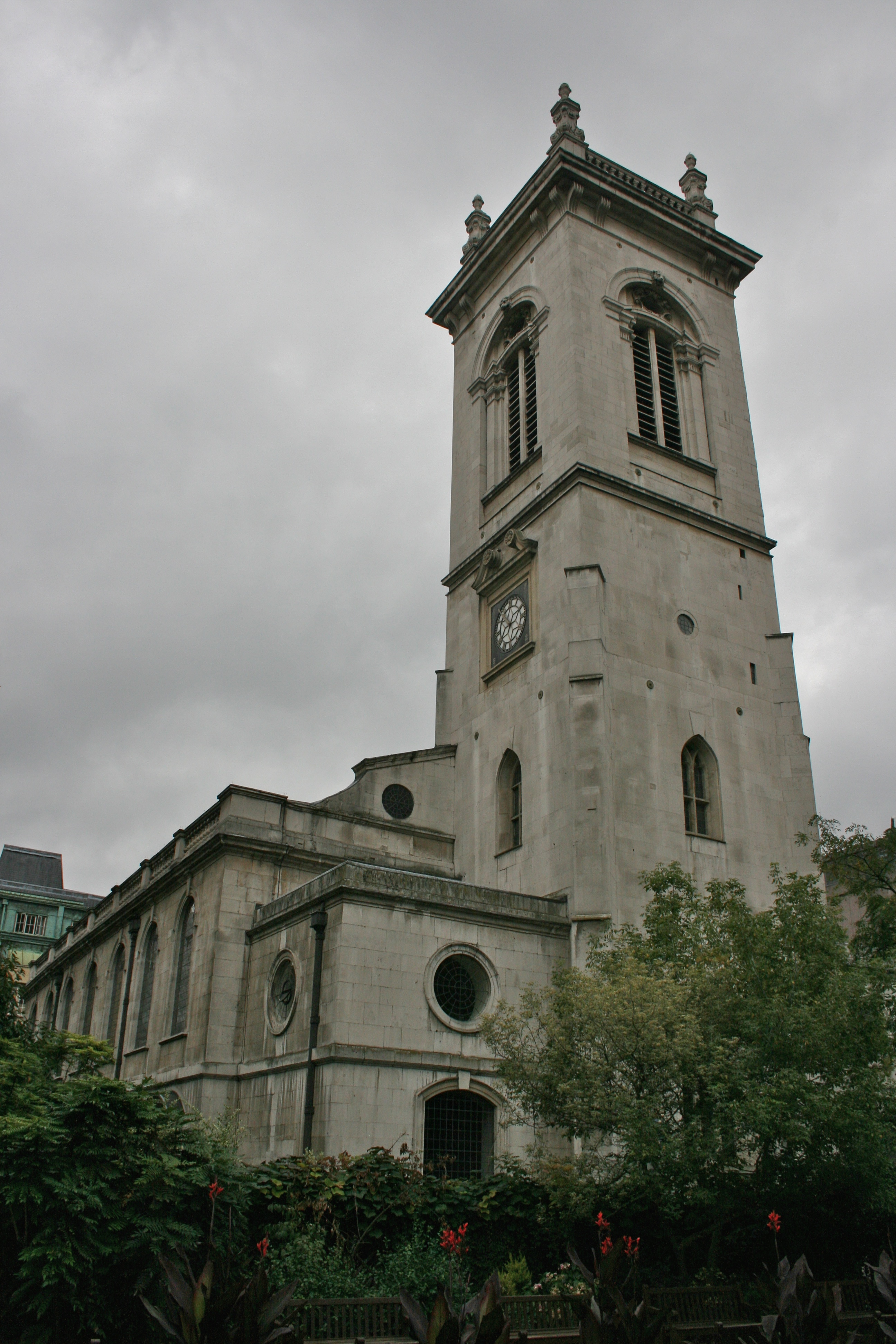 St Andrew Holborn, The Guild Church, 7 St Andrew Street, EC4A 3AB, London.